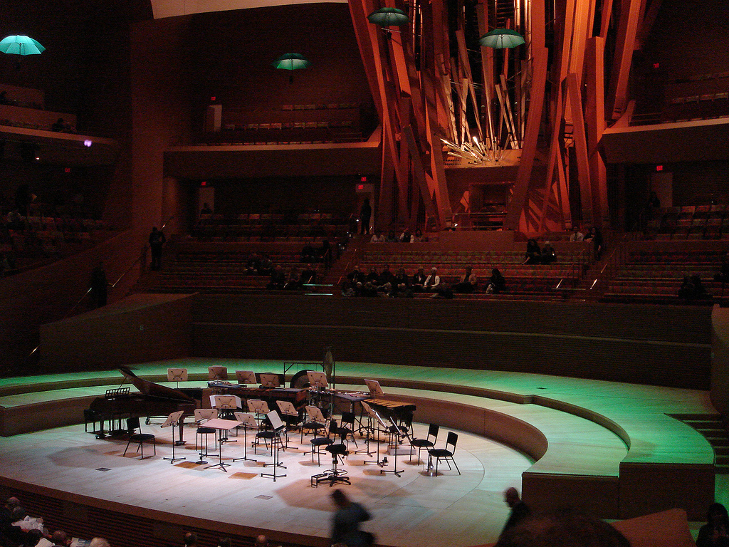 Walt Disney Concert Hall by Frank Gehry, view of the stage and organ.